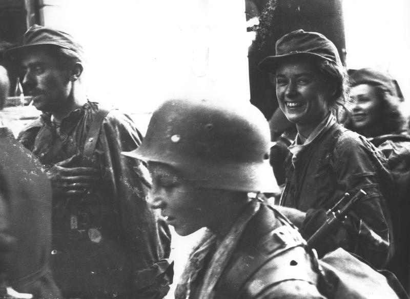 Warsaw Uprising: Polish partisans from the "Radosław" Regiment photographed after escaping from Warsaw's Old Town to the city centre via the sewers. They began their five and a half hour journey at Krasińskich Square and emerged at the junction of Warecka and Nowy Świat streets in the early morning of 2nd September 1944. The boy wearing a helmet in front is Tadeusz Rajszczak ("Maszynka") from the "Miotła" Battalion and behind him is Henryka Zarzycka-Dziakowska ("Władka") from the "Parasol" Battalion.